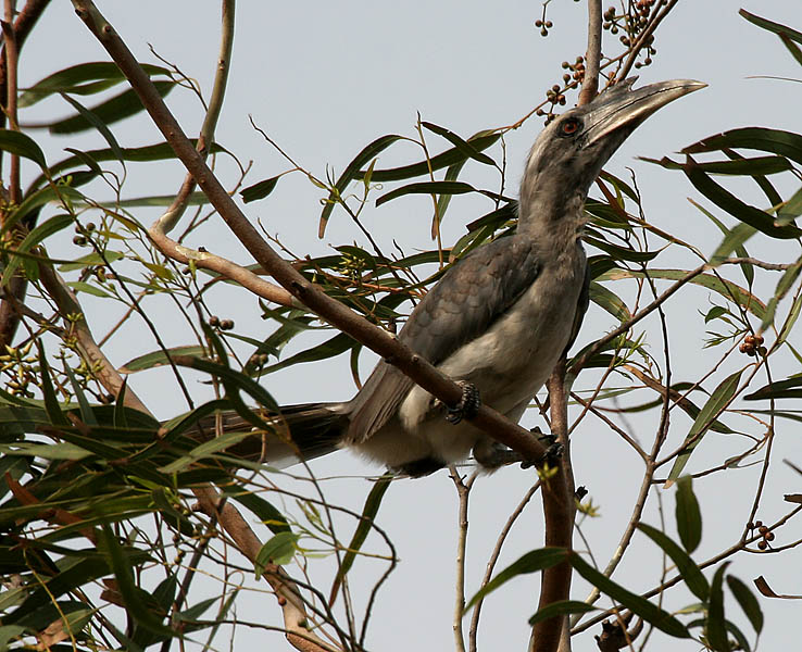 Indian Grey Hornbill Ocyceros birostris in Hyderabad, India.